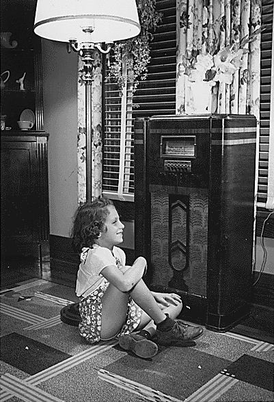 Photograph of a young girl listening to a radio during the Great Depression. From 1920 through the end of World War 2, a period called the Golden age of radio, radio was the only broadcast entertainment medium, and families gathered to listen to the home radio receiver in the evening. The radio shown is a cathedral-style vacuum tube radio.